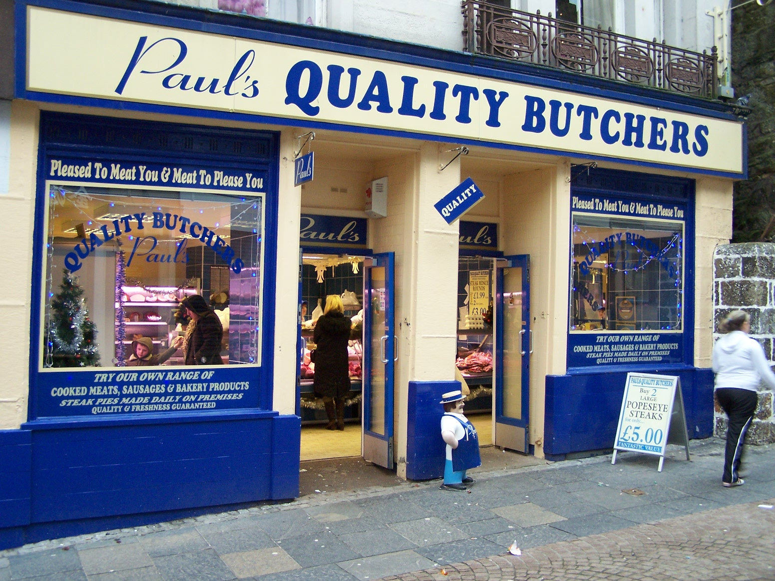 pauls quality butchers kilsyth